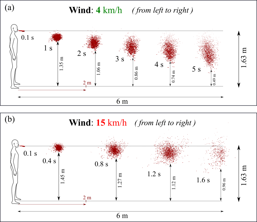 A human cough: saliva droplets disease-carrier particles may travel in air medium to unexpected considerable distances depending on the environmental conditions. This figure shows the effect of wind speed on the saliva droplet and transport under dispersion and evaporation. Wind blowing from left to right at speeds of 4 km/h (a) and 15 km/h (b). The environment is at ambient temperature, pressure, and relative humidity of 20 °C, 1 atm and 50%, respectively, with the ground temperature at 15 °C.